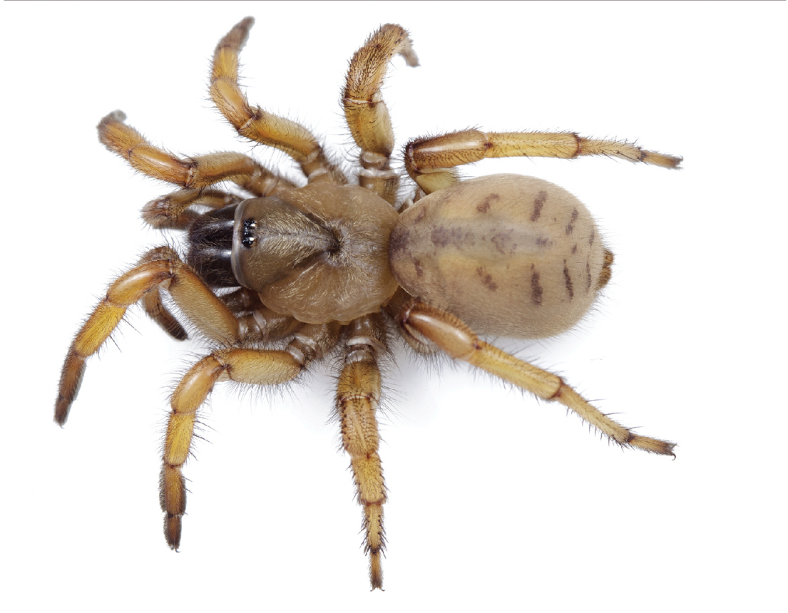 Aptostichus stephencolberti specimens, live photographs. Specimen from Monterey Co., Marina Dunes State Park.